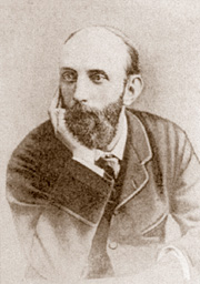 John Melhuish Strudwick ca.1895